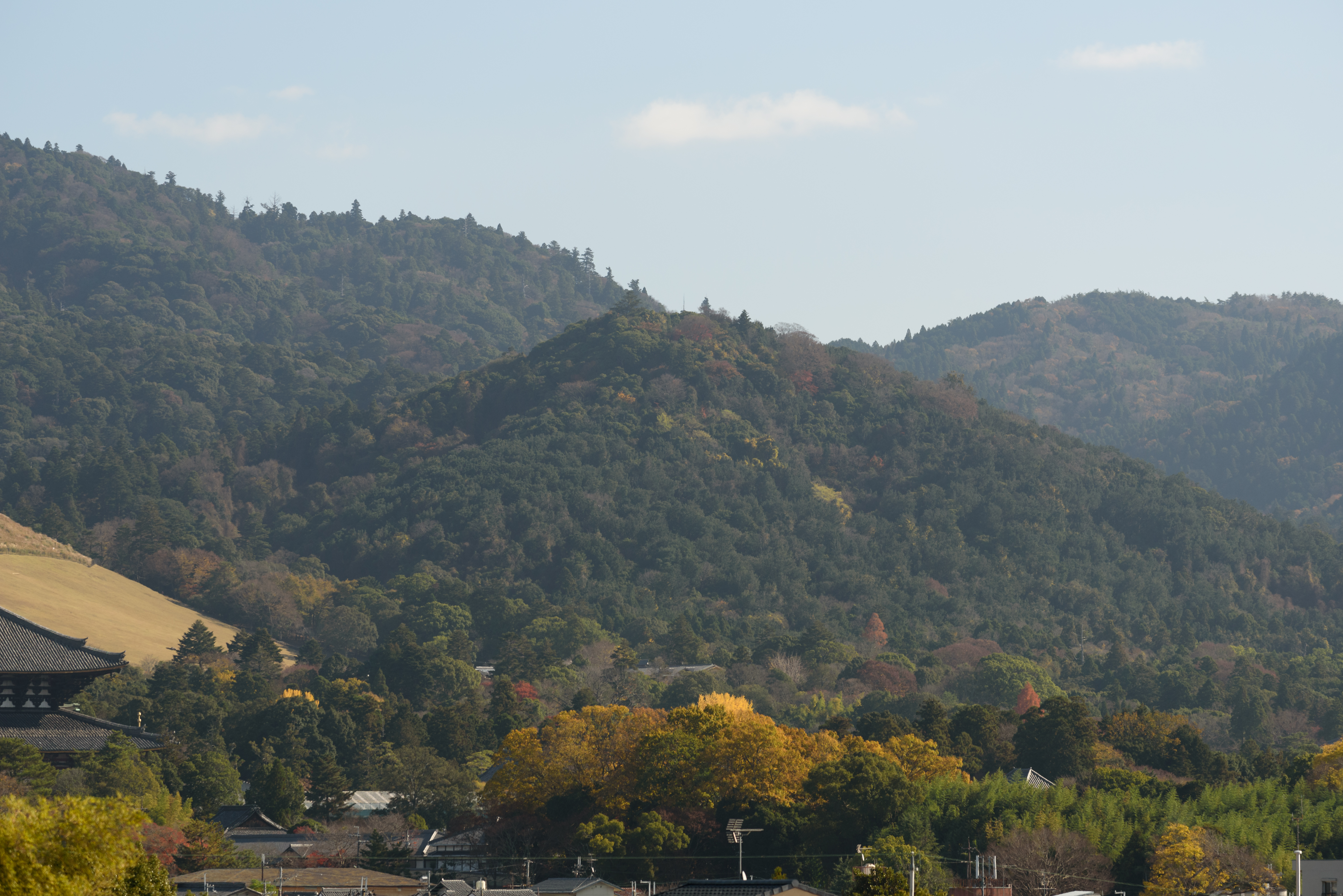 Mount Mikasa (Mikasa-yama), in Nara, Nara prefecture, Japan.